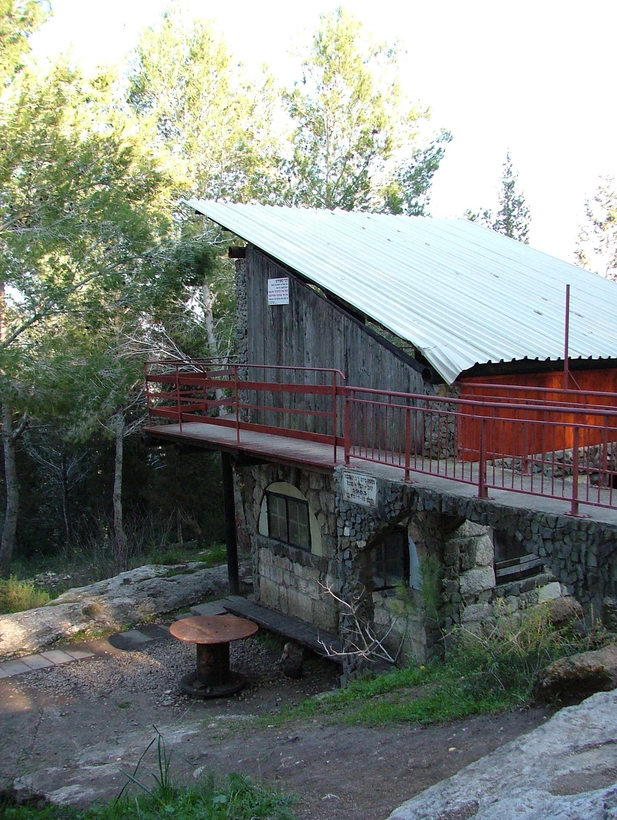 a tree house in the forest near Mishmar-Haemek